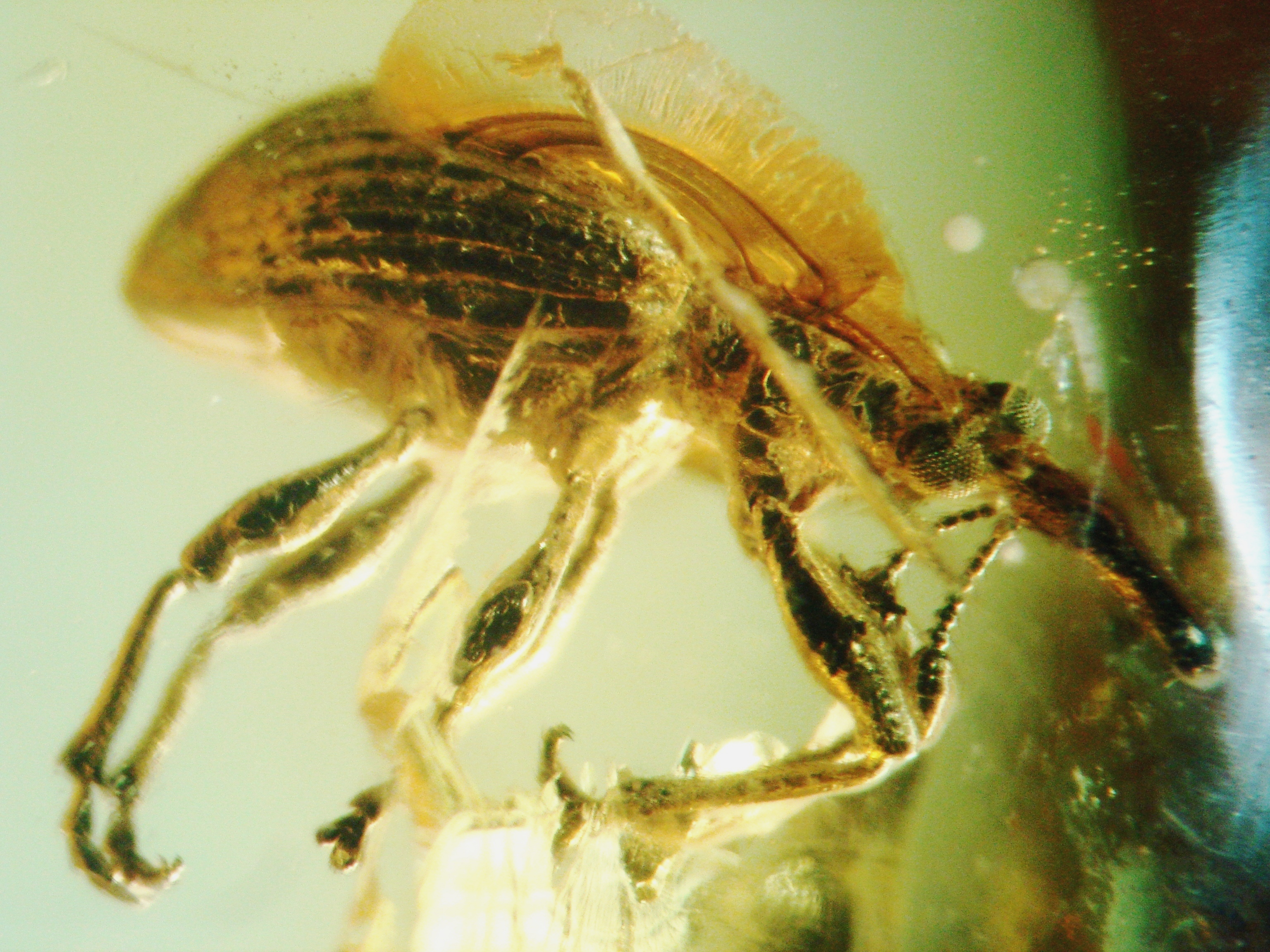 Baltic amber inclusions - 50 million years old - Coleoptera, Brentidae, Apion, ...?